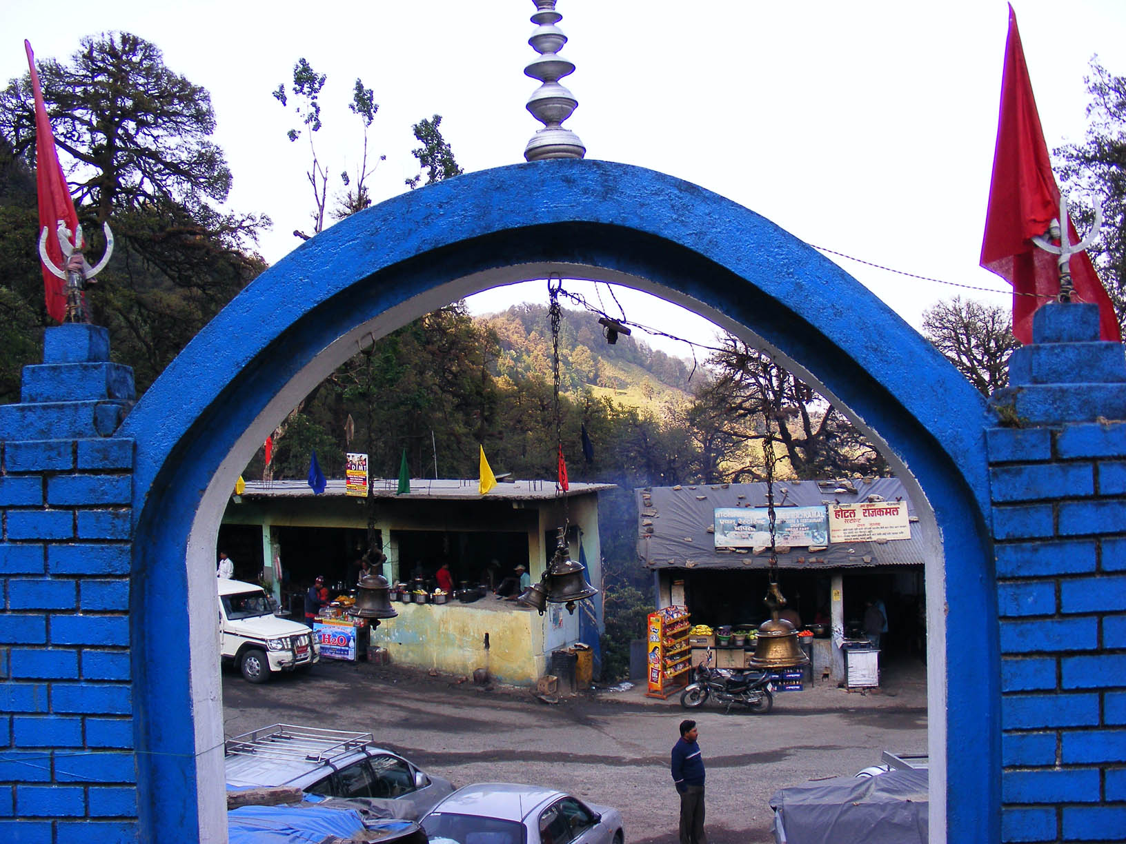 View of Chopta from Starting Point